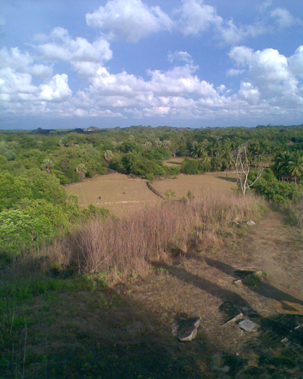 Photo of Pajaka, Udupi, India